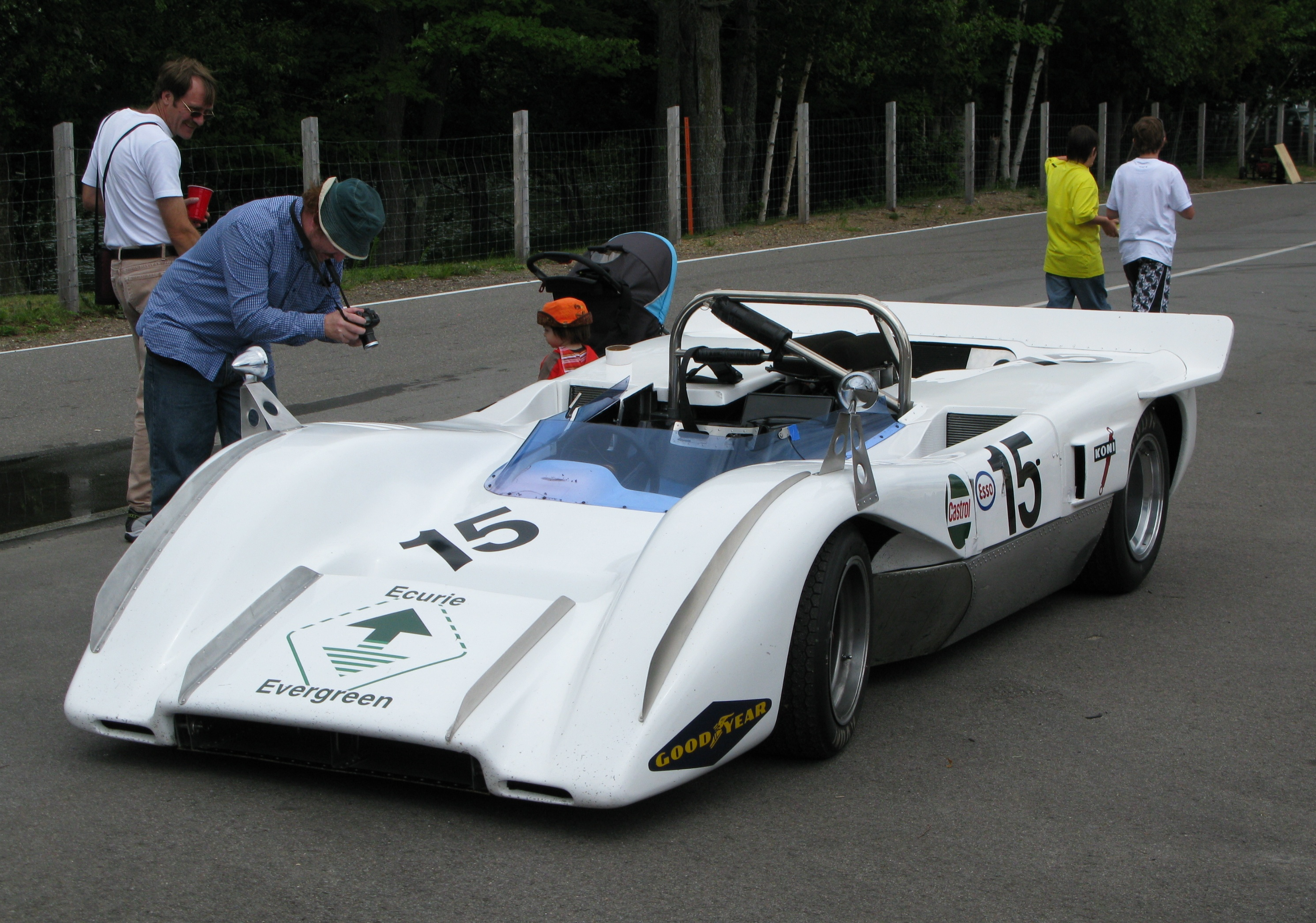 The Ecurie Evergreen McLaren M8C sports racing car, pictured in the paddock at the Sommet des Légends race meeting, Circuit Mont-Tremblant, Quebec, Canada. July 2009.